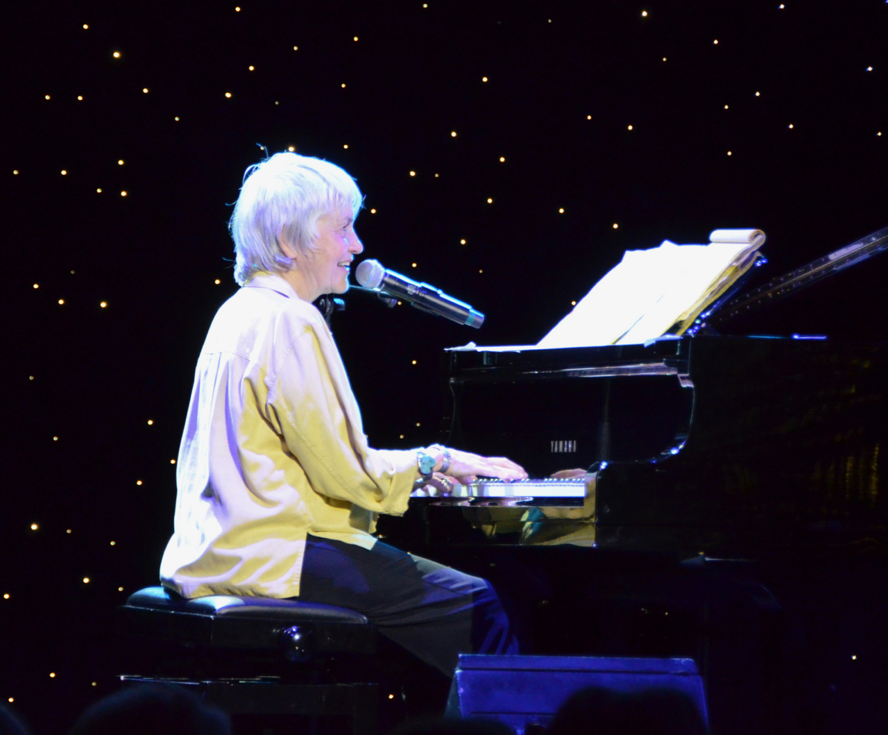 Cris Williamson in concert January 2013